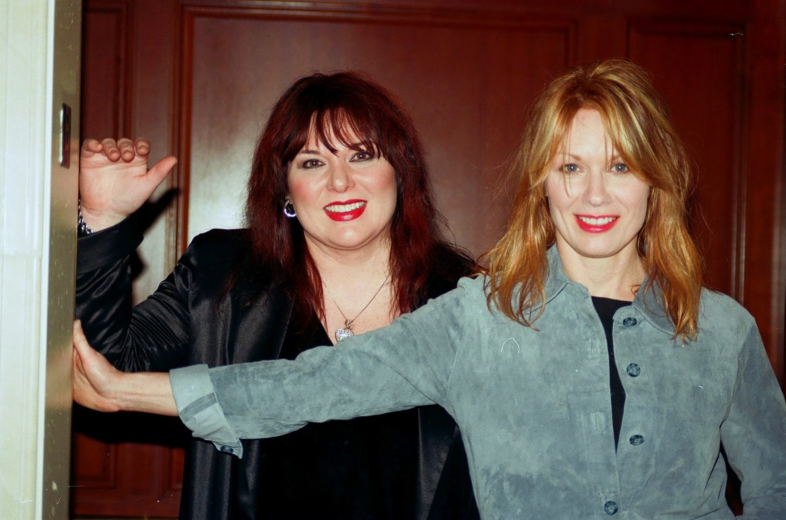 Larry King cardiac event "four seasons hotel " Wash. D.C. March 1, 2002